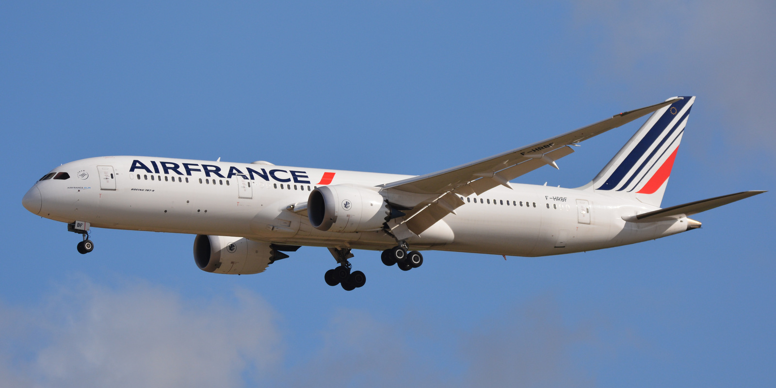 Paris-Charles de Gaulle Airport